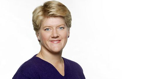 pose of clare balding